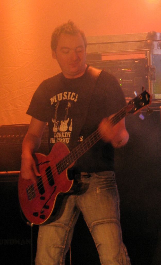 Tomasz Gołąb - guitarist of Brothers group